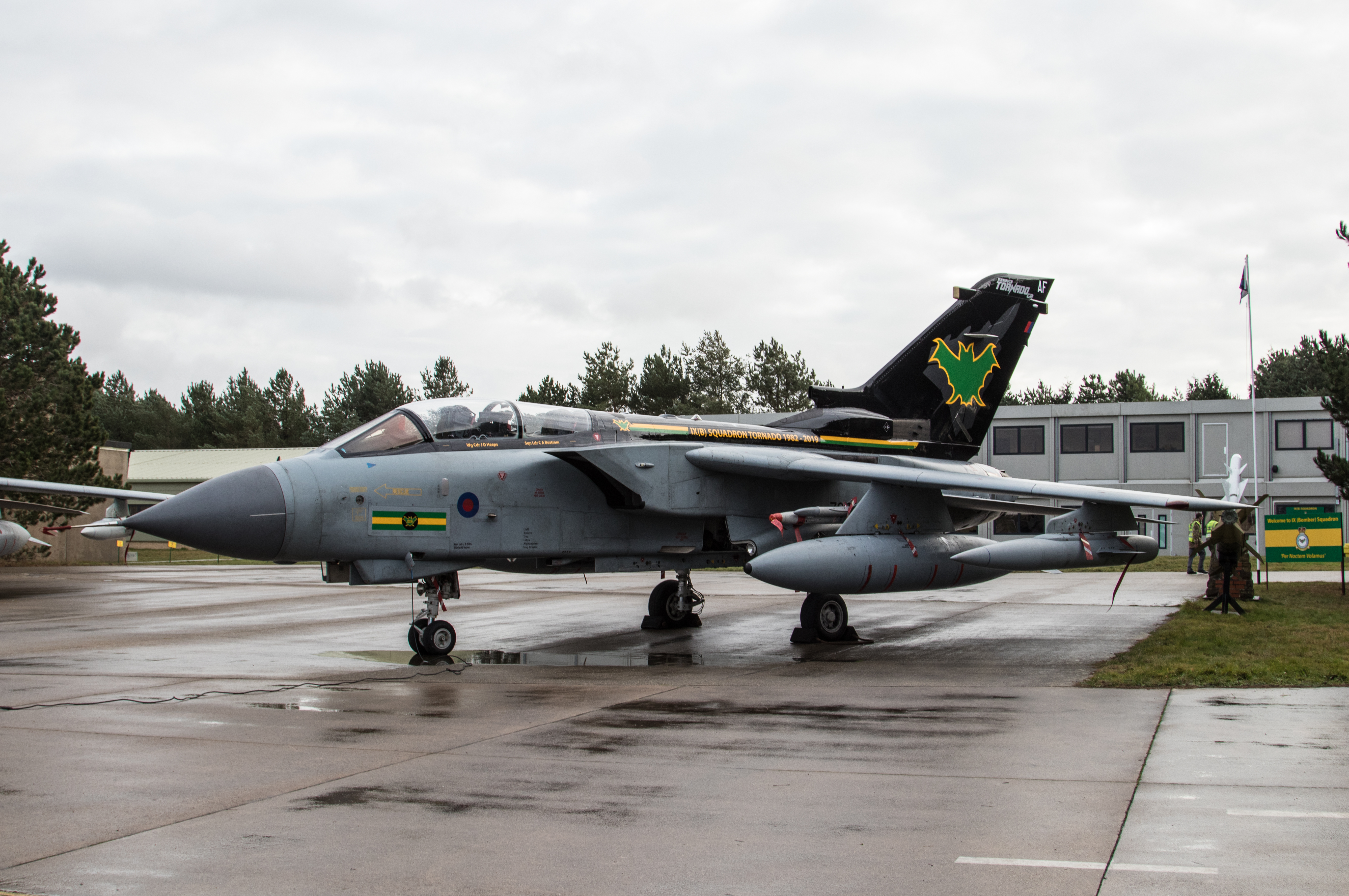 Tornado Farewell Enthusiasts Day, RAF Marham, Norfolk